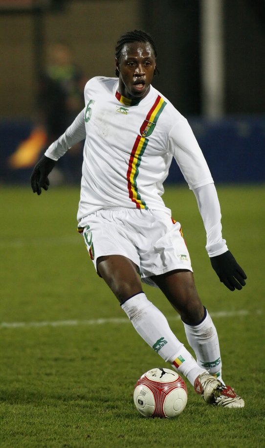 Guinean player Pablo Thiam during match Guinea vs. Côte d'Ivoire at Stade Robert Diochon, Rouen, France.